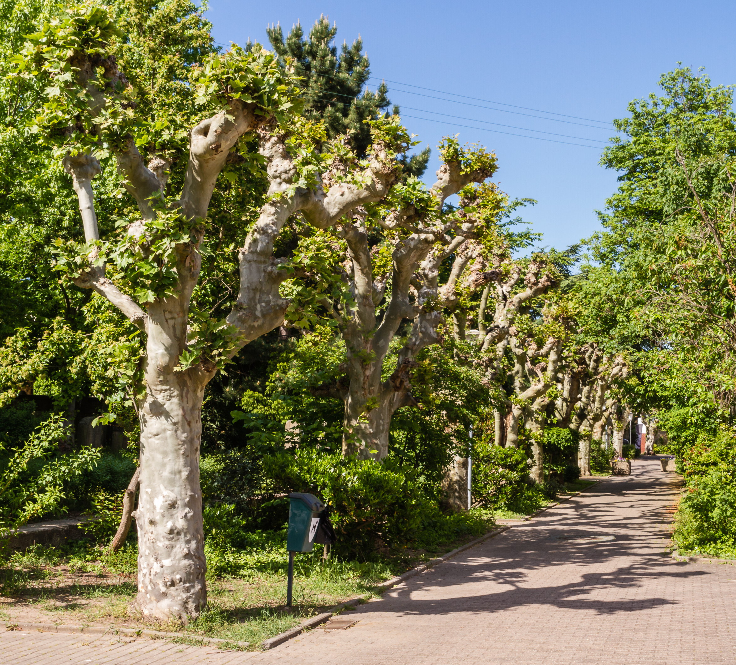 Natural monument number: ND-7332-515 Designation: platane allee Place: Rhineland-Palatinate, administrative district Bad Dürkheim, Deidesheim, Platanenweg, along the cemetery Description: Platanus sp.